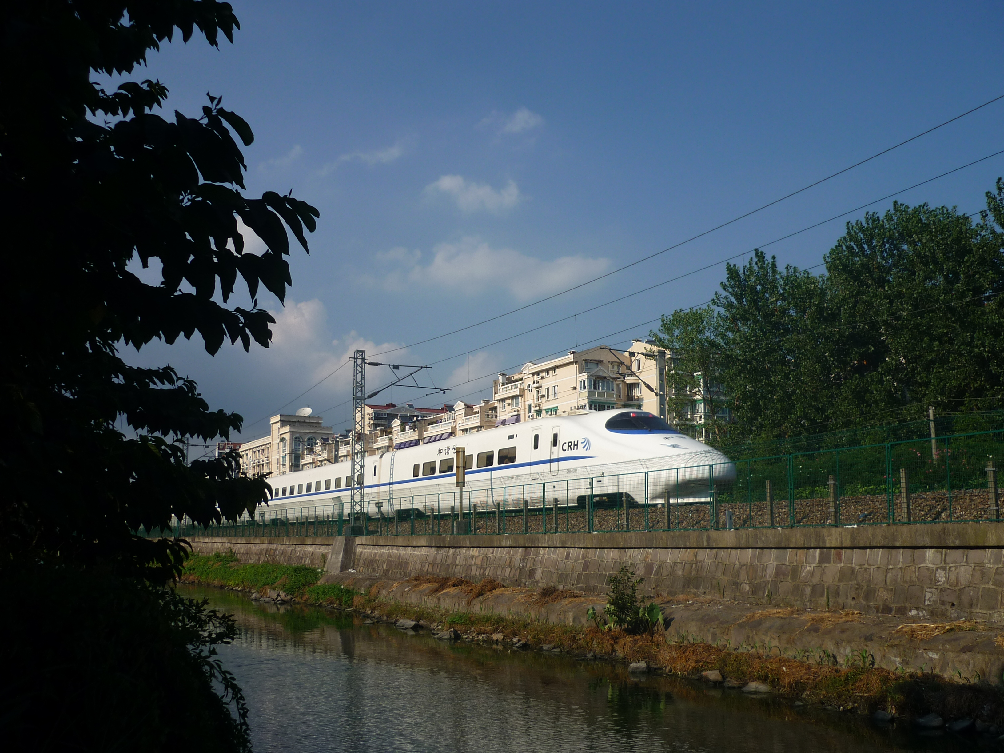 CRH2-126E on Xiaoyong Railway, picture taken in Ningbo